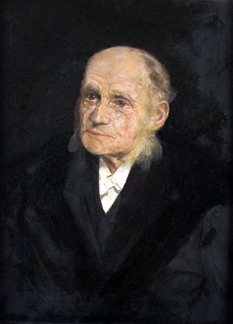 Jacob Maarten van Bemmelen (1830-1911), Leiden professor (chemistry), painting made in 1902 by Menso Kamerlingh Onnes (1860-1925)